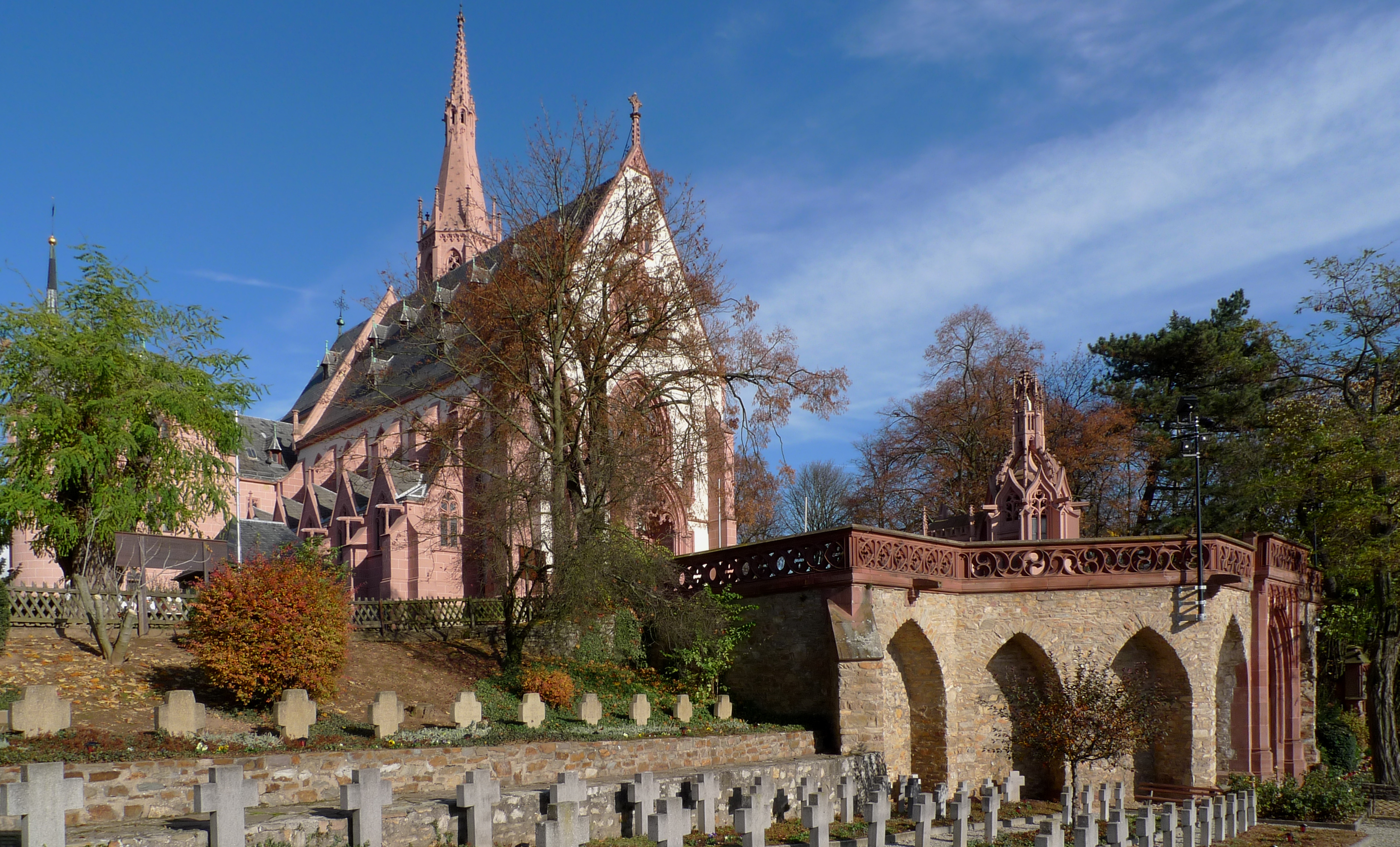 Rochus Chapel above the town of Bingen on the Middle Rhine in Germany